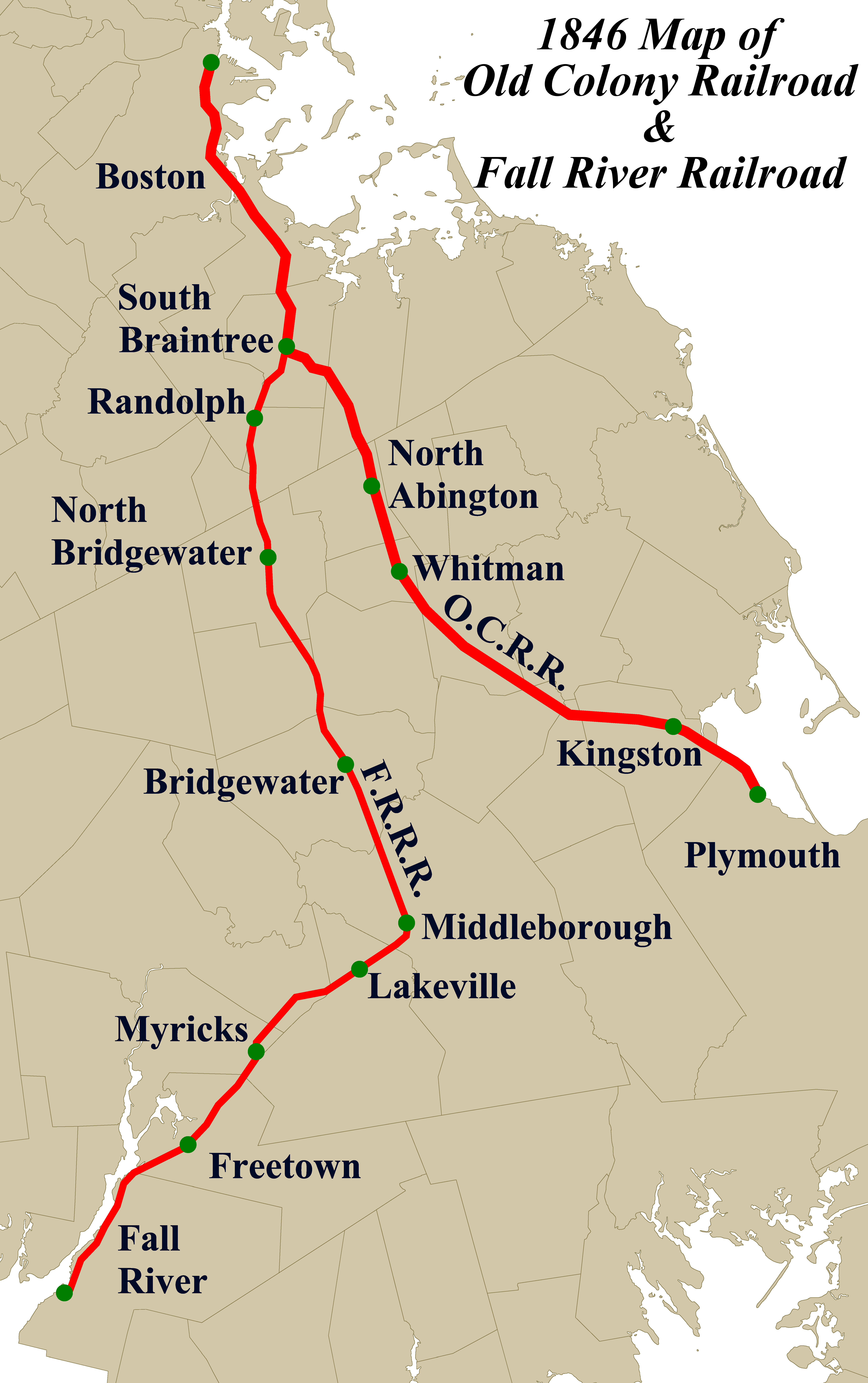 Map showing lines of Old Colony Railroad (O.C.R.R.) and Fall River Railroad (F.R.R.R.) in 1846. Boston to Plymouth and South Braintree to Fall River, Massachusetts